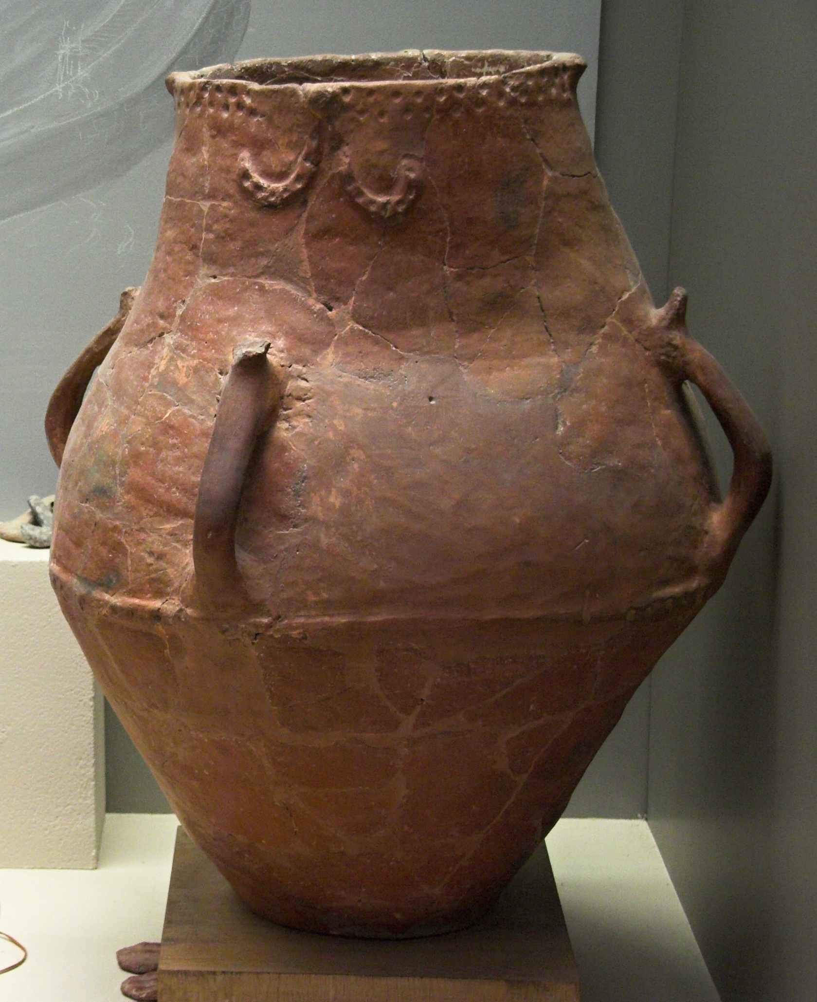 Finds from Sesklo, Neolithic Period, circa 4800 BC. National Archaeological Museum of Athens, inv. no. 6015.